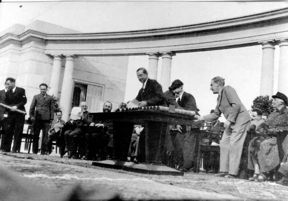 The Hebrew University of Jerusalem. Graduation Ceremony in the Amphitheater, led by the University President, I.L. Magnes. From right to left: Rose Jacobs, Hugo Bergman, I.L. Magnes, S. Asaf, Julius Gutman.